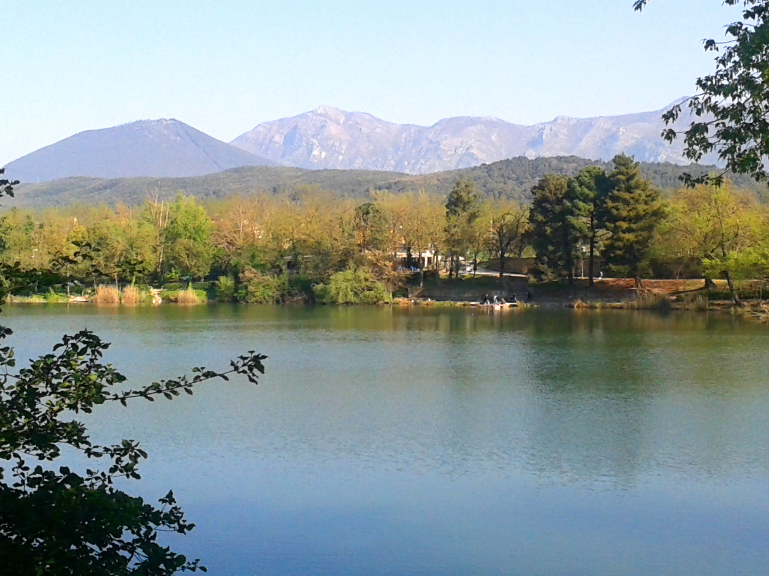 Telese Terme (BN) - Telese's Lake